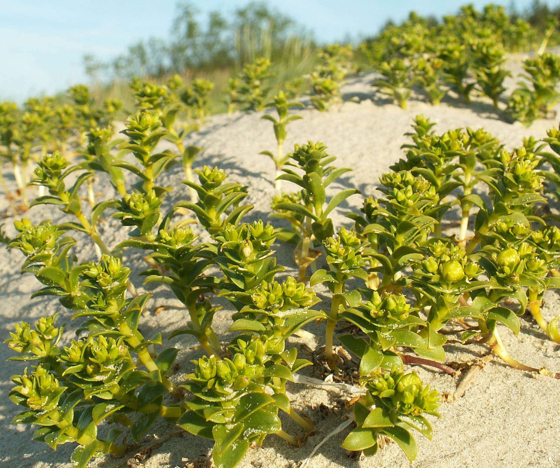 Honckenya peploides on the Baltic see. Swinoujscie, NW Poland.